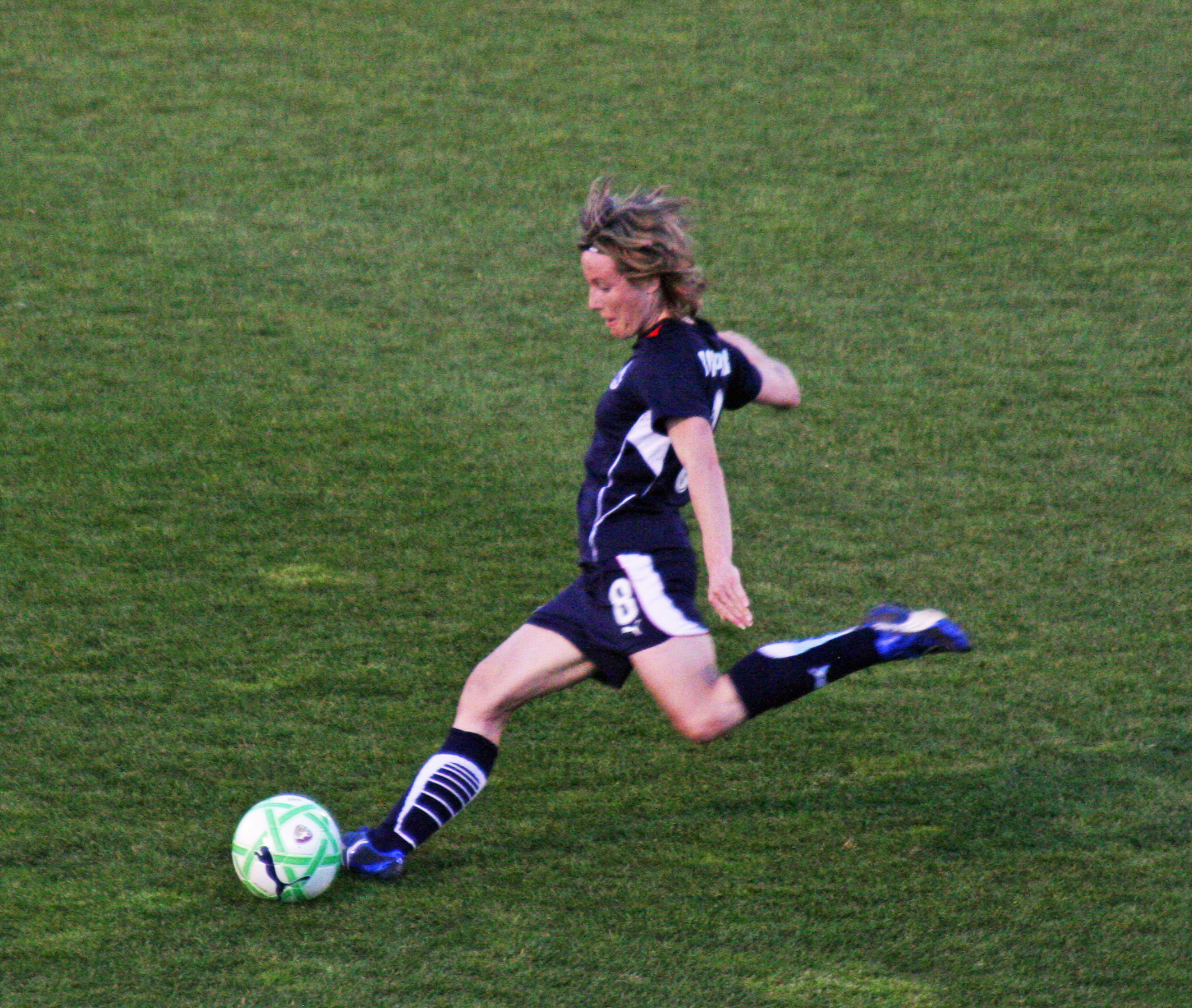 Sonia Bompastor of Washington Freedom